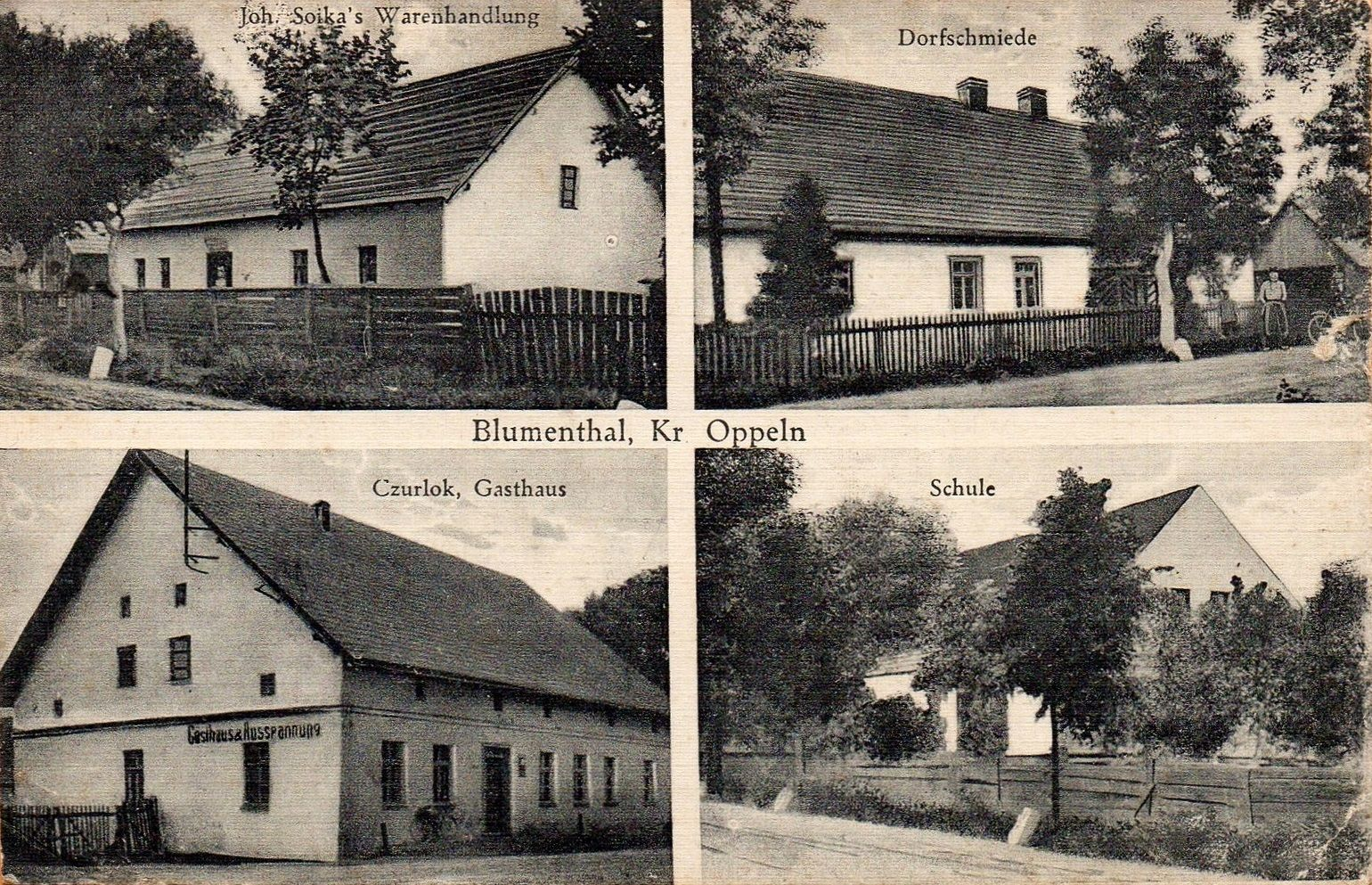 Postcard of Blumenthal (Krzywa Gora)